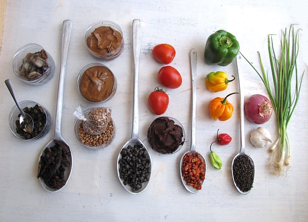 Basic ingredients that define this traditional sauce: (Right to Left) green onion, garlic, onion, dried black pepper, dried capsicum, fresh green bell pepper, red and yellow peppers (Capiscum chinense), tomato paste, fresh tomatoes, fermented locust bean (Parkia biglobosa), dry beans, peanut butter, fermented tamarind seed pods (Tamarindus indica); with the teaspoon 'yokhos' (dried oysters) and the larger, lighter-color 'touffa' dried whelk. Not shown including meat (as available), peanut oil (any other cooking oil as available) or salt to taste. The quantities shown were used in their entirety together for one recipe that fed 12 people.